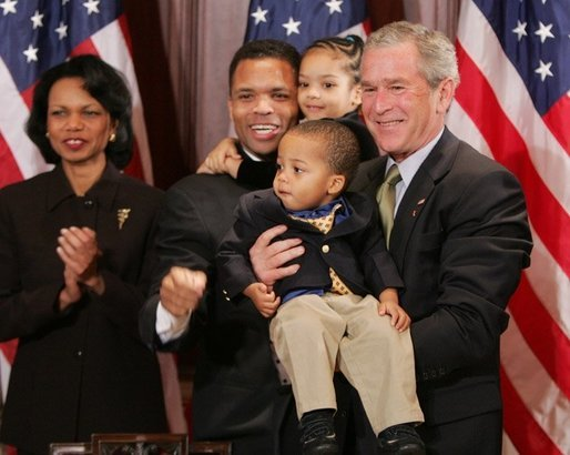 Jesse Jackson, Jr., his children and George W. Bush (Background Condoleezza Rice): description as follows: President George W. Bush is seen Thursday, Dec. 1. 2005 in the Eisenhower Executuive Office Building in Washington, as he poses for photos with U.S. Rep. Jesse Jackson Jr. and his children, Jesse Jackson III and Jessica, following the signing of H.R. 4145, to Direct the Joint Committee on the Library to Obtain a Statue of Rosa Parks, which will be placed in the US Capitol's National Statuary Hall. U.S. Secretary of State Condoleezza Rice is seen at left.